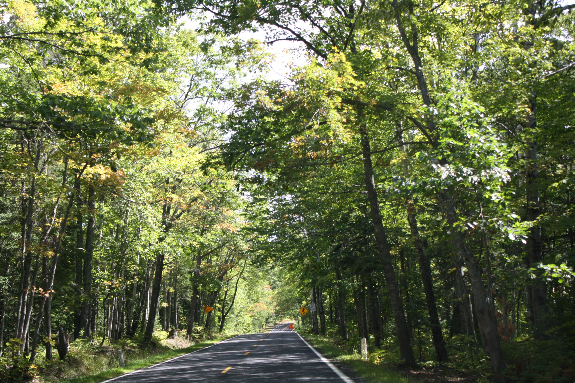 Looking at the "Covered Trail" near the northern terminus of U.S. Route 41 in Michigan, just south of Copper Harbor, Michigan.